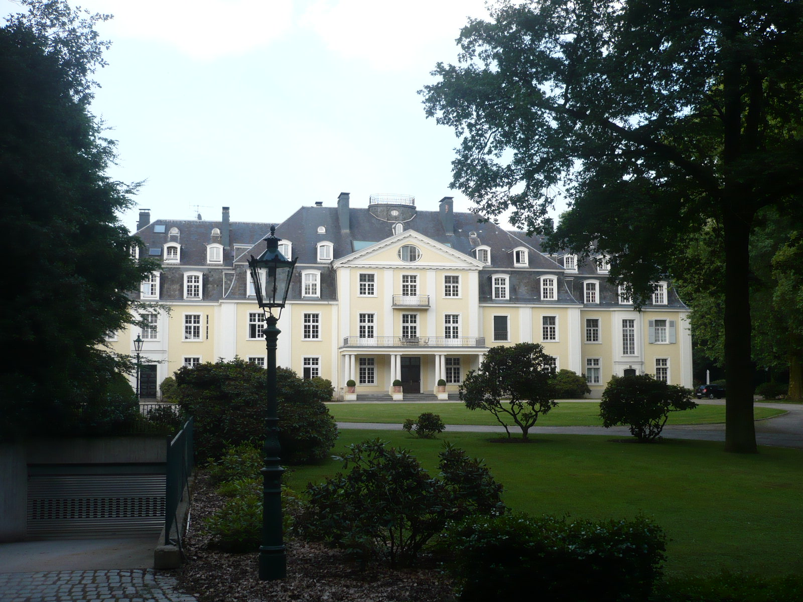 Schloss Pesch (Pesch Mansion) in Meerbusch, Germany